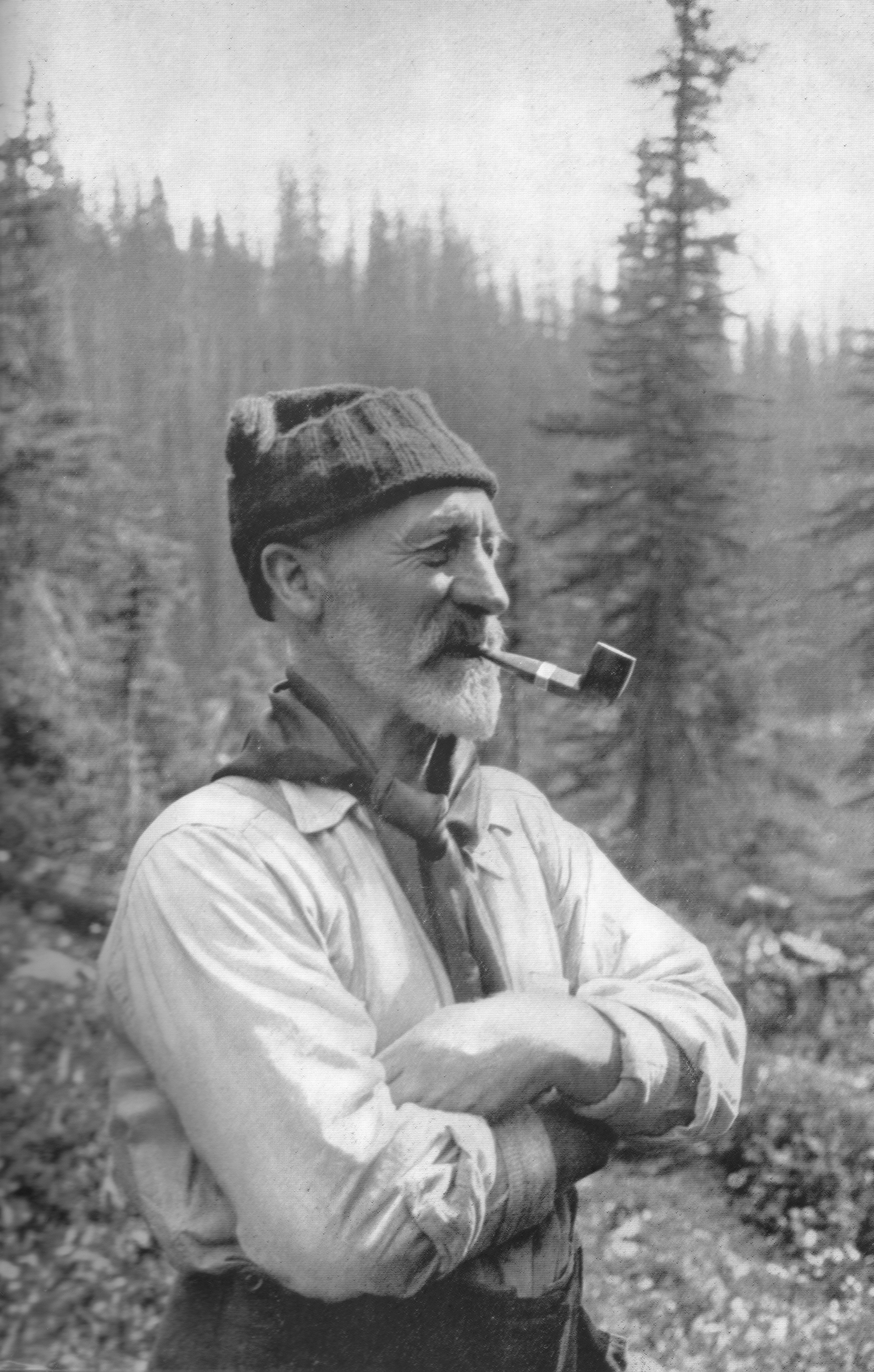 Portrait of Arthur Oliver Wheeler, first president of the Alpine Club of Canada.